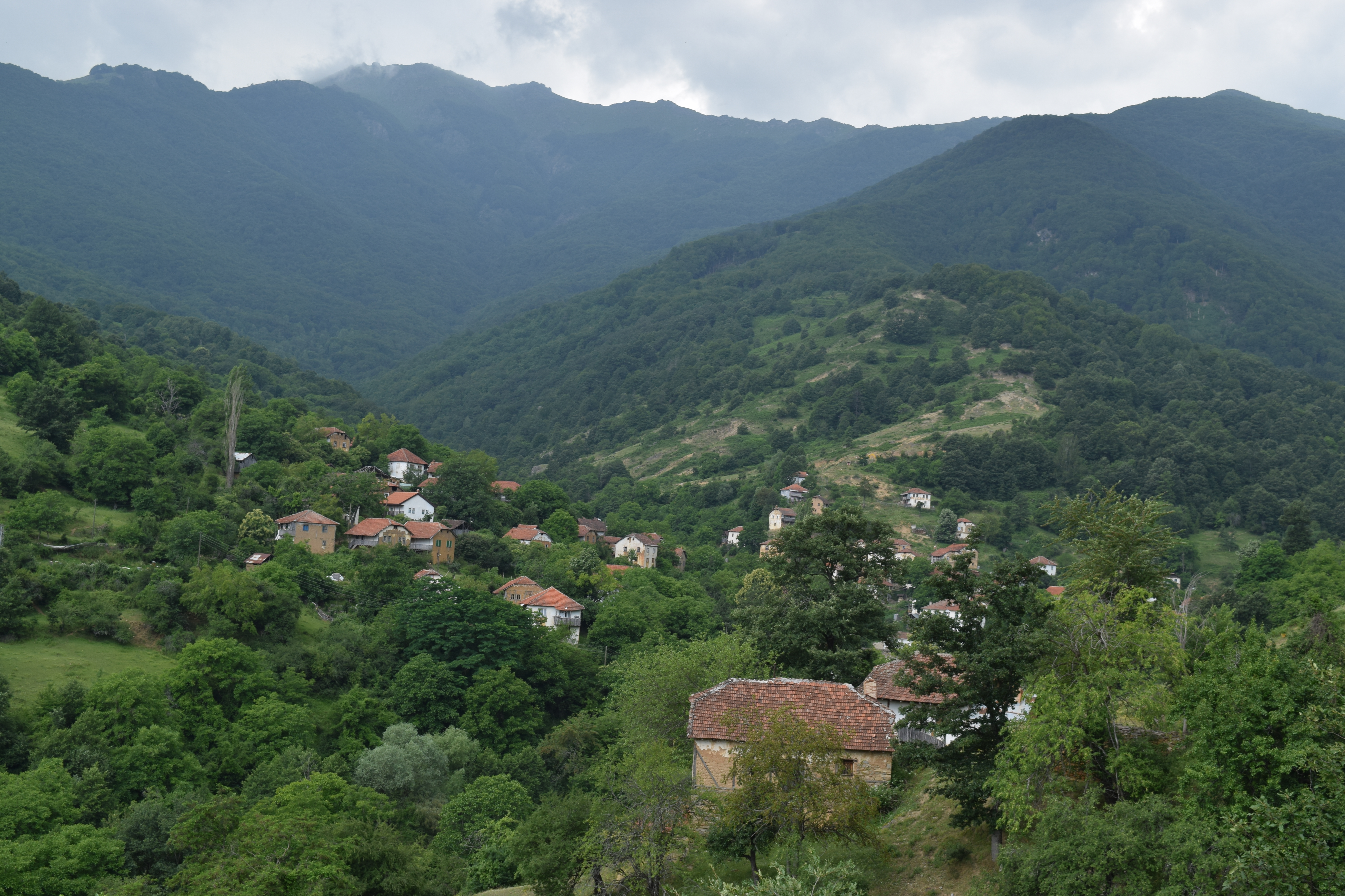 View of the village Oreše